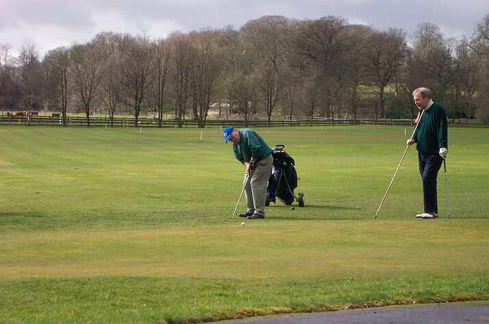 Players putt out on the 6th green at Poloc Cricket Club's Winter Golf Section "Wee Poloc" course in March 2004